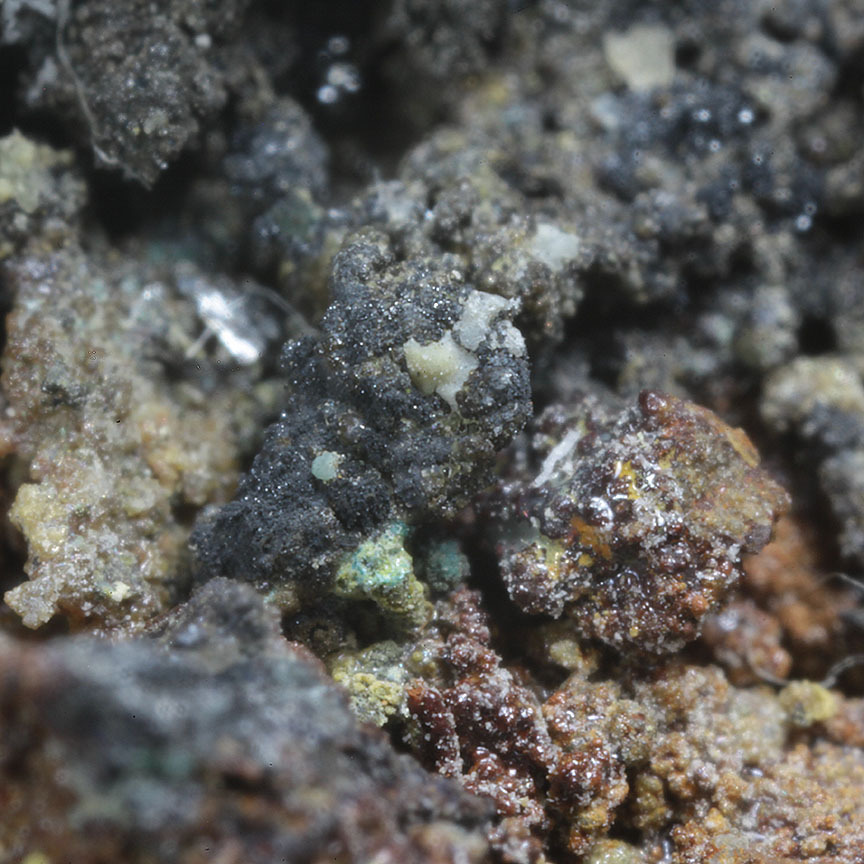 Krutovite Dimensions: 5.6 x 4.9 x 3.2 cm Locality: Svornost Mine (Einigkeit Mine), Jáchymov, Karlovy Vary District, Karlovy Vary Region, Czech Republic Description: A wonderful piece of the very rare nickel arsenide krutovite, which is only found in less than a dozen localities in the world. The type locality for the species is Potucky, which is right next to Svornost in the Jachymov District in Bohemia. Pale grey krutovite can be seen on a few sides of the specimen, the light yellow mineral is unidentified, though it could just be dickite clay.